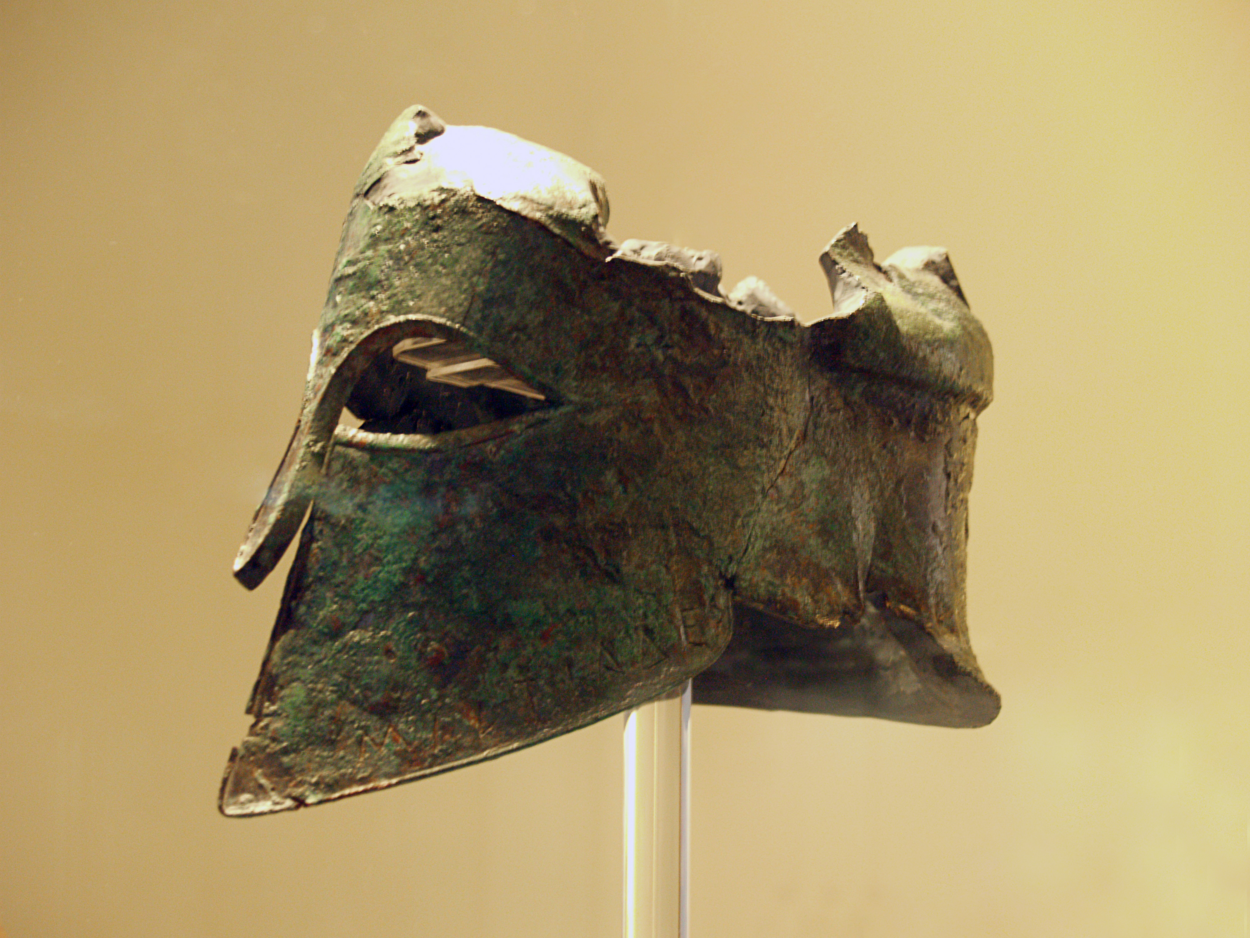 This helmet was given as a sacrifice to the temple of Zeus at Olympia by the great Athenian general Miltiades, who engineered the Athenian victory over the Persians in the Battle of Marathon.